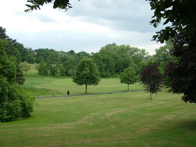 Walking the dog, Holywells Park Holywells Park provides a surprisingly extensive area of wild and cultivated land close to the centre of Ipswich.